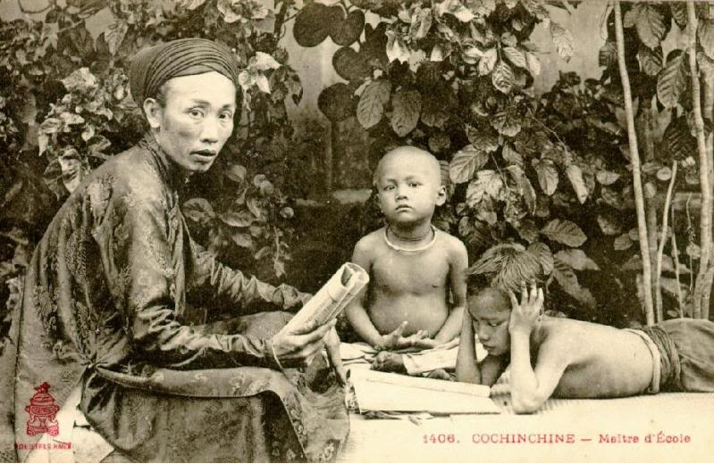 Saigon. Teaching activity before 1945